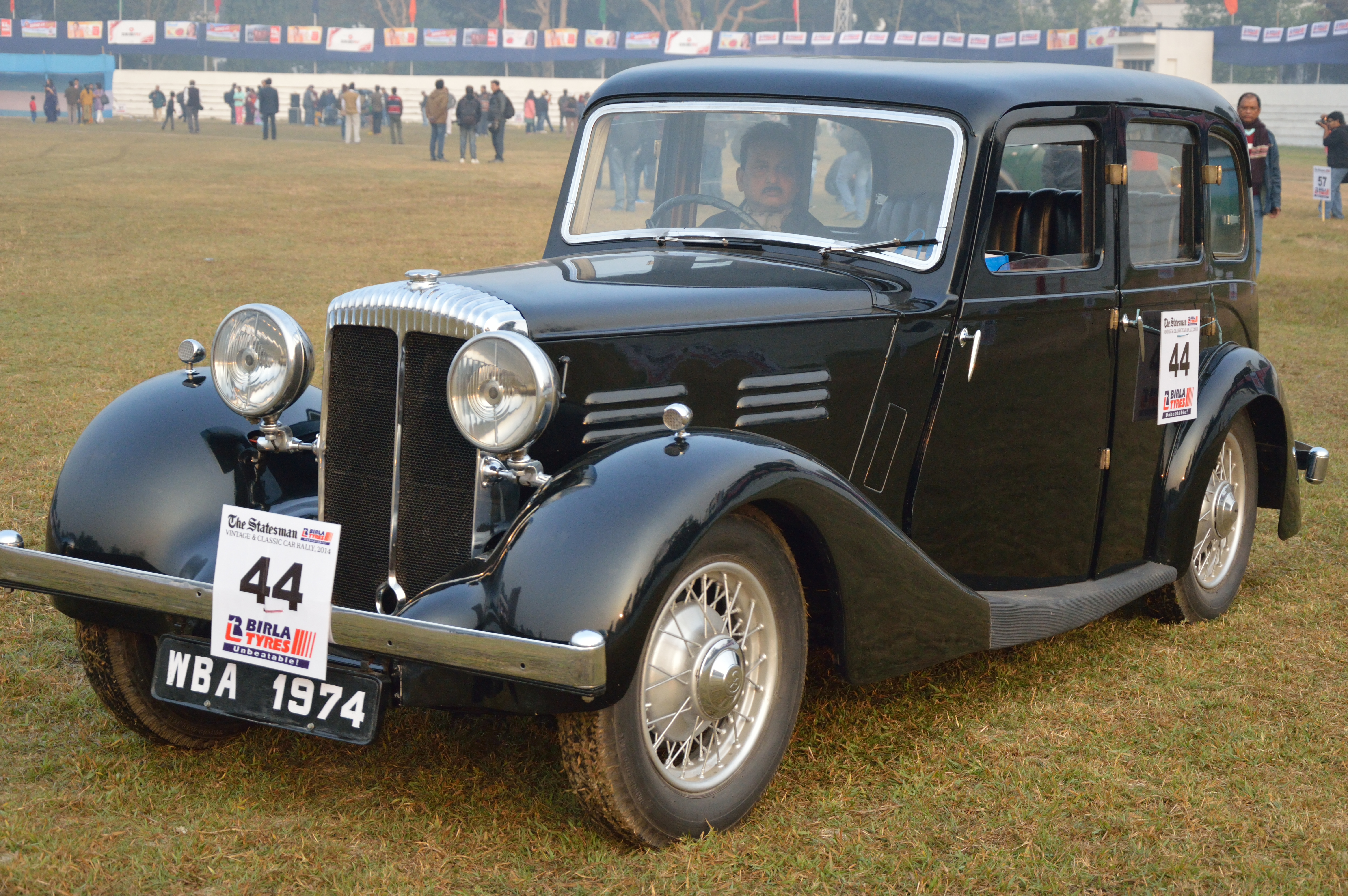 This car was exhibited and took part during ‘The Statesman Vintage & Classic Car Rally 2014’at the Eastern Command Sports Stadium of Fort William, Kolkata. The route was Strand road, Esplanade, Central avenue, Bhupen Bose avenue, Shaymbazaar five points crossing, APC Roy road, Moulali, CIT road, National Medical College, Park Circus seven points, Syed Amir Ali Avenue, Gariahat, Rashbehari Avenue, SP Mukherjee road, Hazra crossing, Ashutosh Mukherjee road, Exide crossing, AJC Bose road again Strand road and back to the ECS stadium. The rally was held at the morning on Sunday, 19 January 2013 at the ECS Stadium, where 175 entrants were registered with cars and bikes manufactured from 1906 to 1971. This one day festival usually takes place on the second Sunday of every January (but this time it is observed on third Sunday) in Kolkata since 1968 with full of period costume and cultural period pieces. This car is owned by Pramod Kumar Mittal and driven by K Haldar.